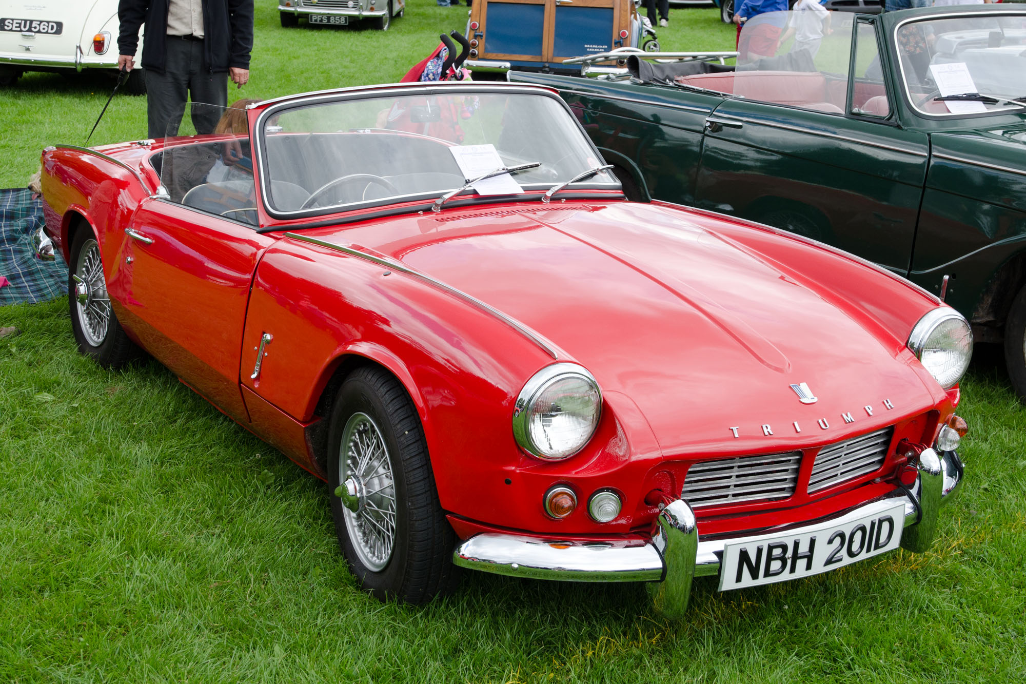 Burnley Classic Car Show at Towneley Park 29/06/2014